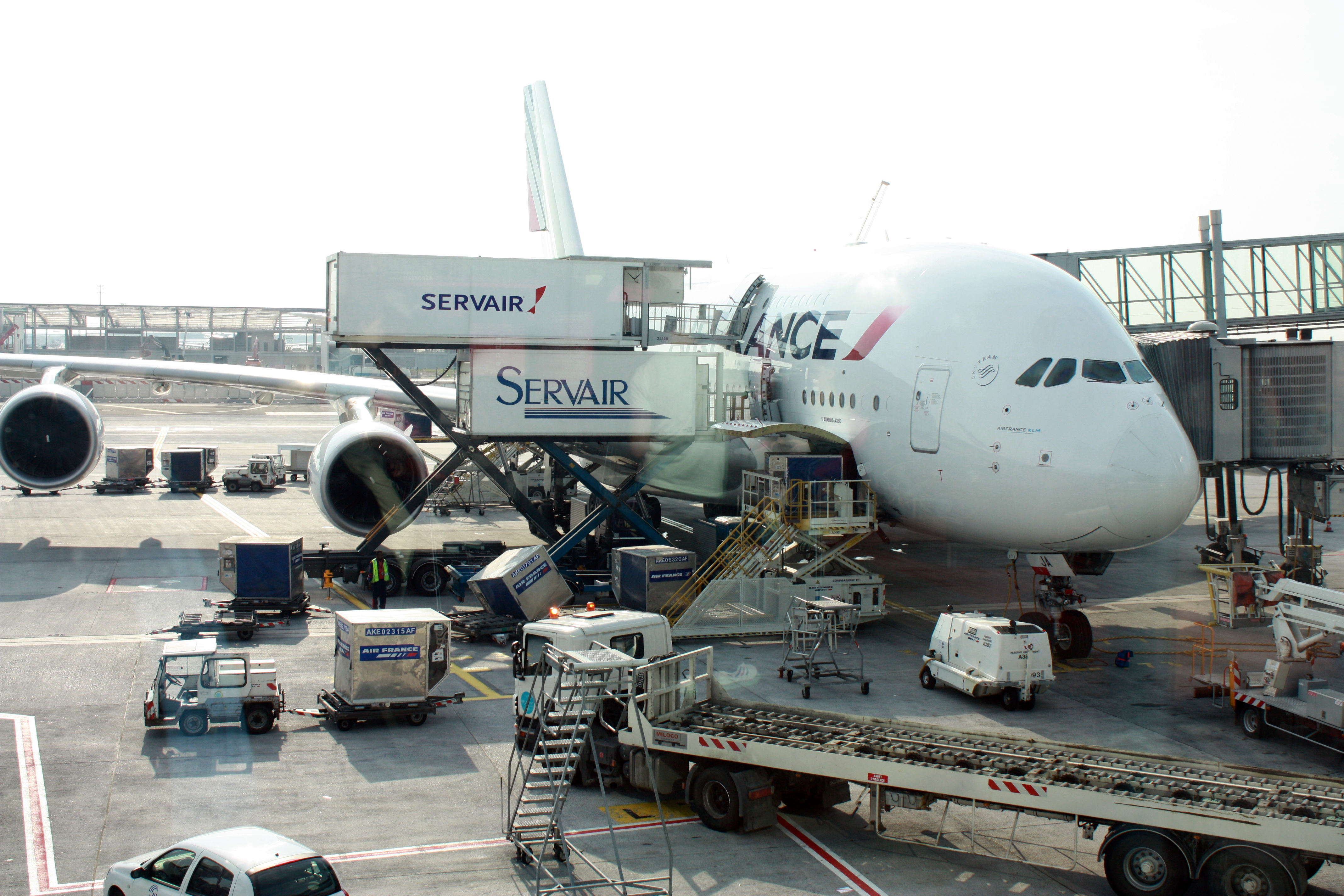 Air France Airbus A380 F-HPJC on ramp at Roissy Charles De Gaulle Airport in Paris, France, during catering and cargo loading.